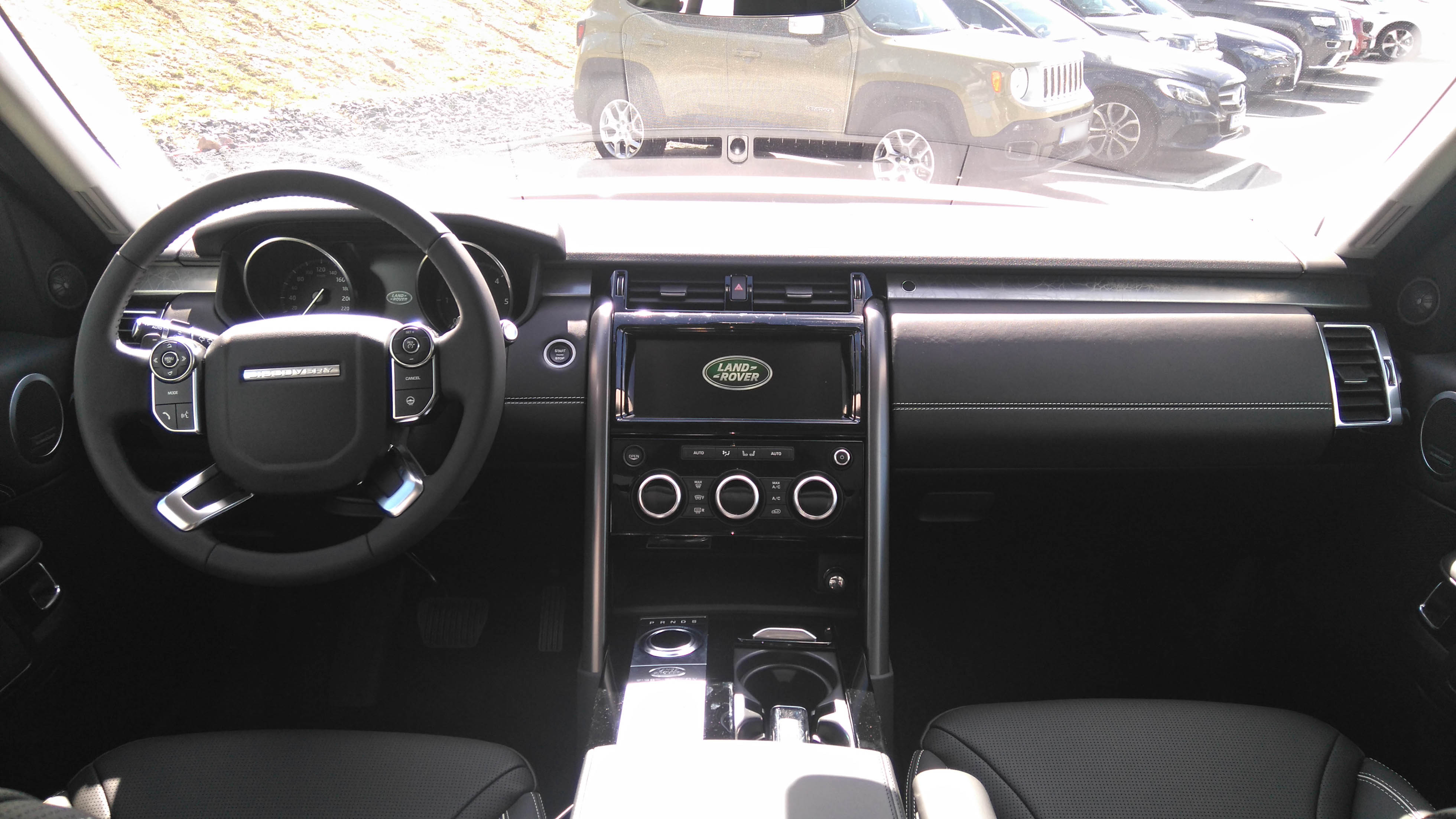 2017 Land Rover Discovery dashboard.